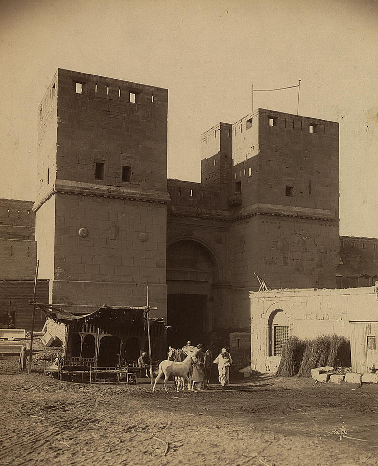 Title: Bal-el-Nasr (Porte de la Victoire) extérieur au Caire / Bonfils. Abstract/medium: 1 photographic print : albumen.